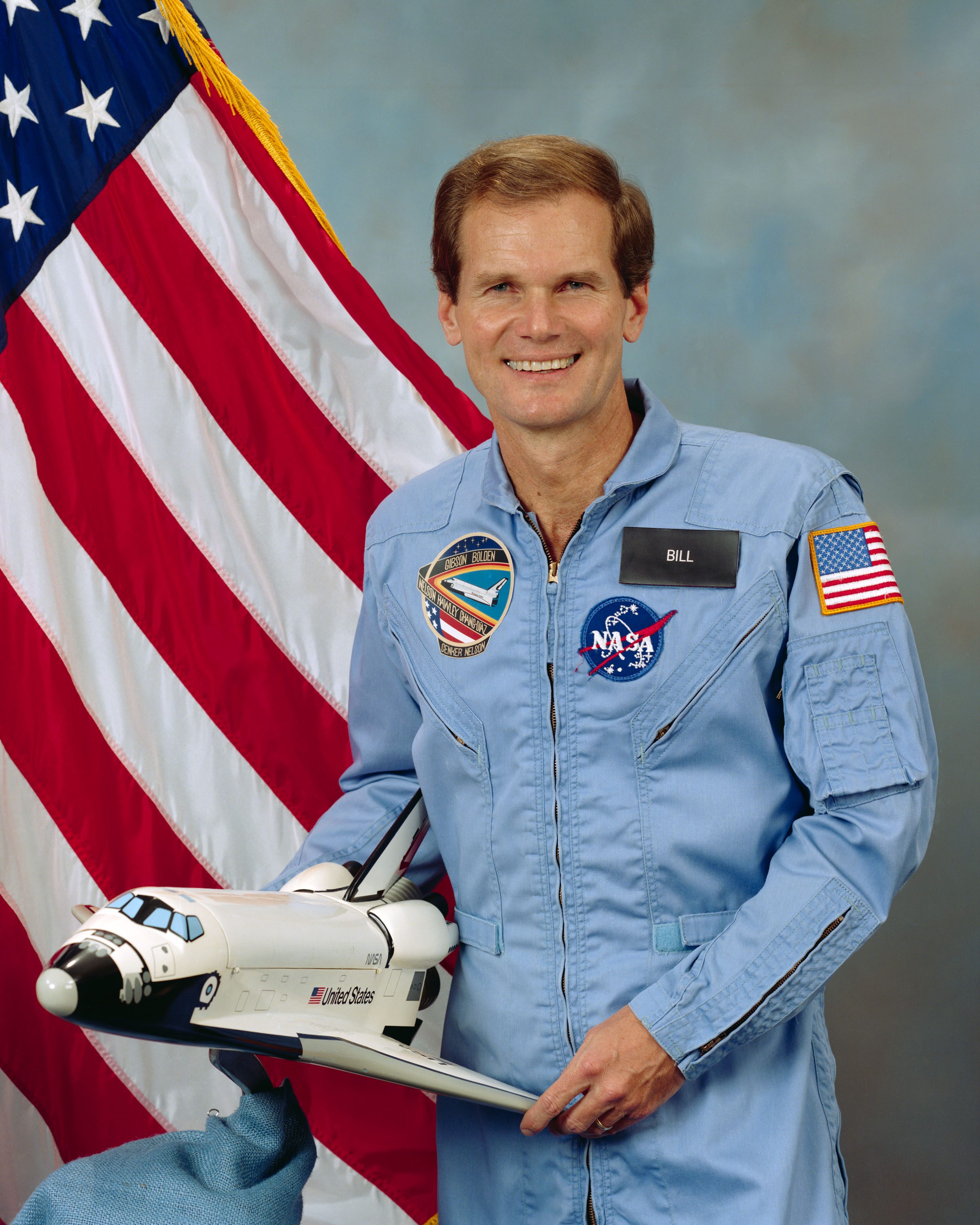 Bill Nelson, U.S. Senator from Florida, former astronaut.